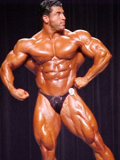 King Kamali on stage